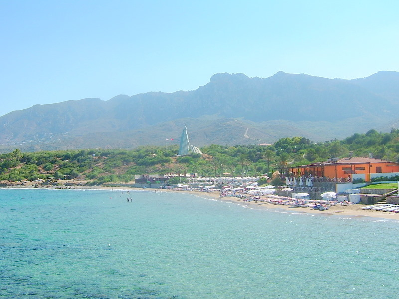 Escape Beach Club (also known as Yavuz Çıkarma Plajı ("Yavuz Beach of Landing") in Alsancak (Karavas), Kyrenia / Girne District, Northern Cyprus. *The place where the Turkish army first landed in 1974, it is now a tourist centre.